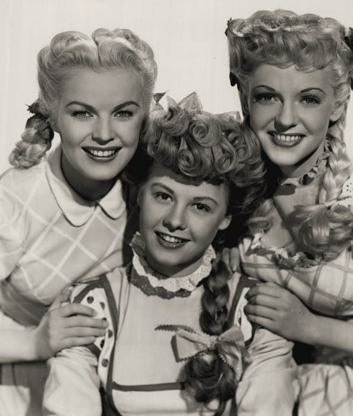 Left to right: June Haver, Vera-Ellen, and Vivian Blaine in Three Little Girls in Blue (1946) - publicity still (cropped : see source)